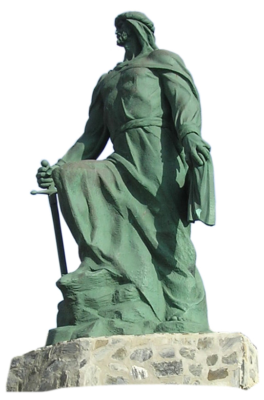 Statue of Abd ar-Rahman I. Almuñécar, Spain.